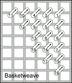 Basketweave tent stitch diagram --Velvet-Glove 15:33, 5 July 2006 (UTC)